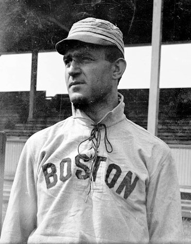 Baseball player, Ed Abbaticchio, Boston Beaneaters, standing in front of a ballpark grandstand, 1903